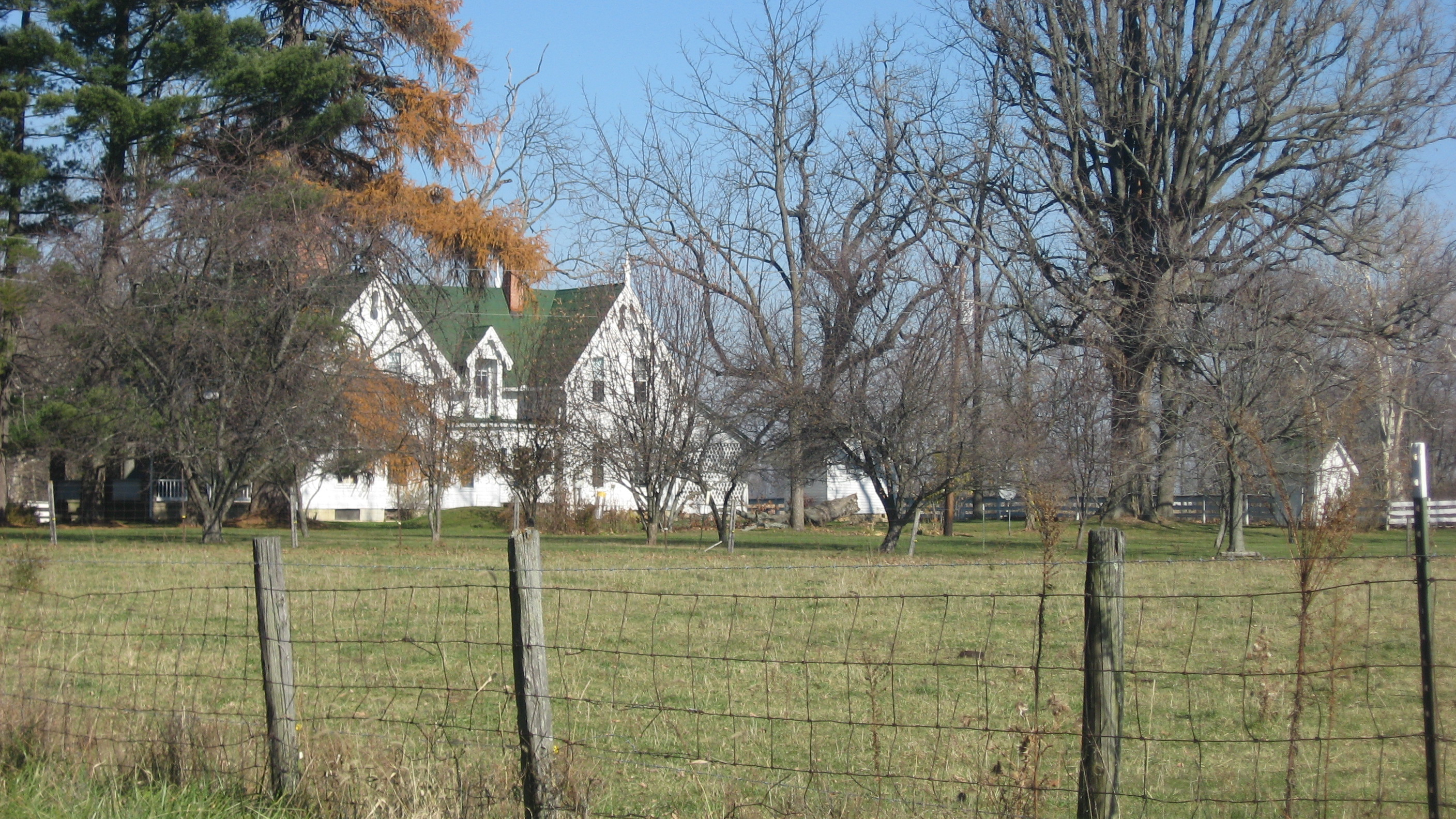 Front and eastern side of the farmhouse and minor buildings on the Dr. John Arnold Farm, located at 744 N450E west of Glenwood in Union Township, Rush County, Indiana, United States. Built in 1853, it is listed on the National Register of Historic Places.